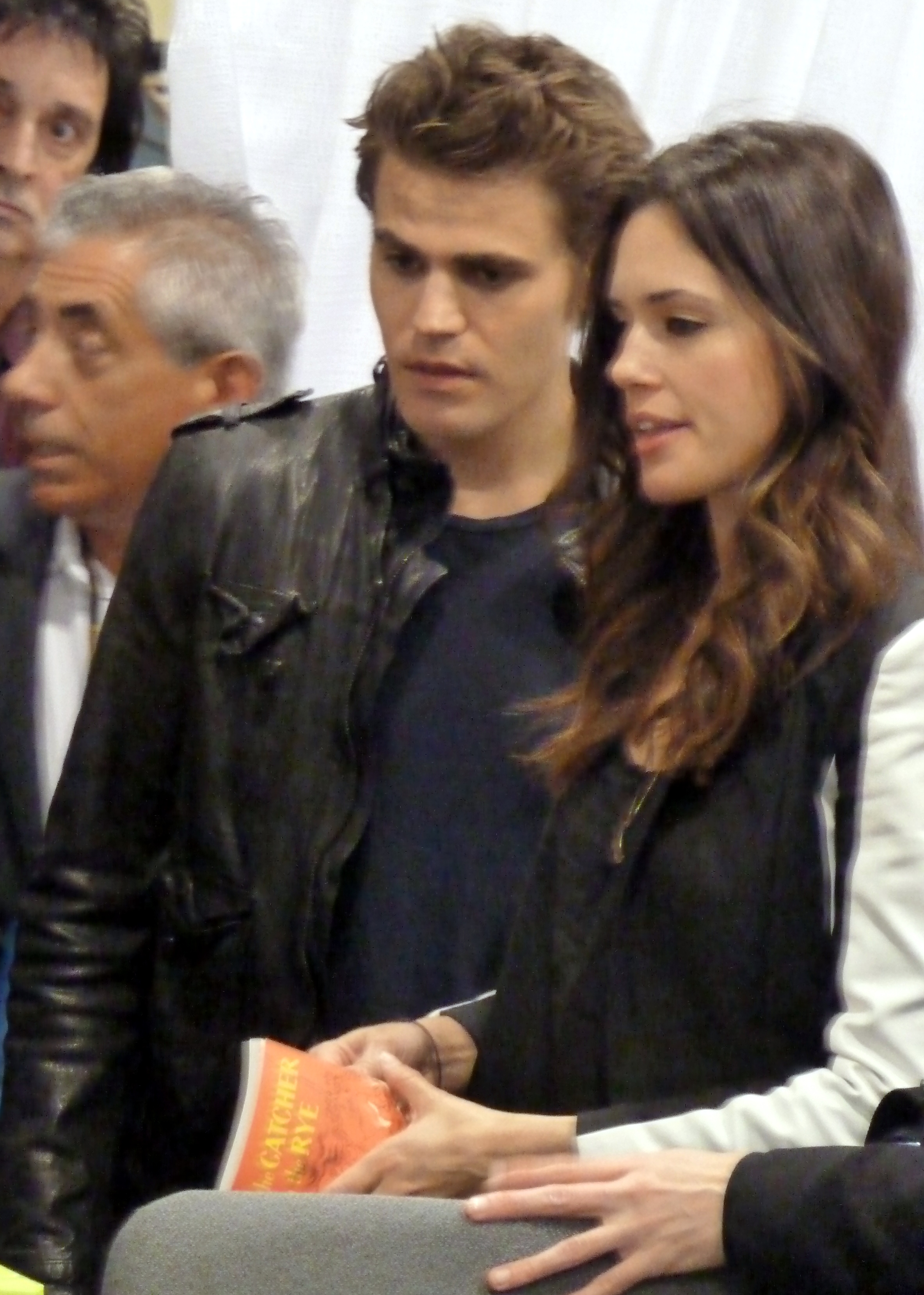 2012 Wizard World Toronto Paul Wesley and Torrey DeVitto from The Vampire Diaries. How about that? She has a Catcher in the Rye book.